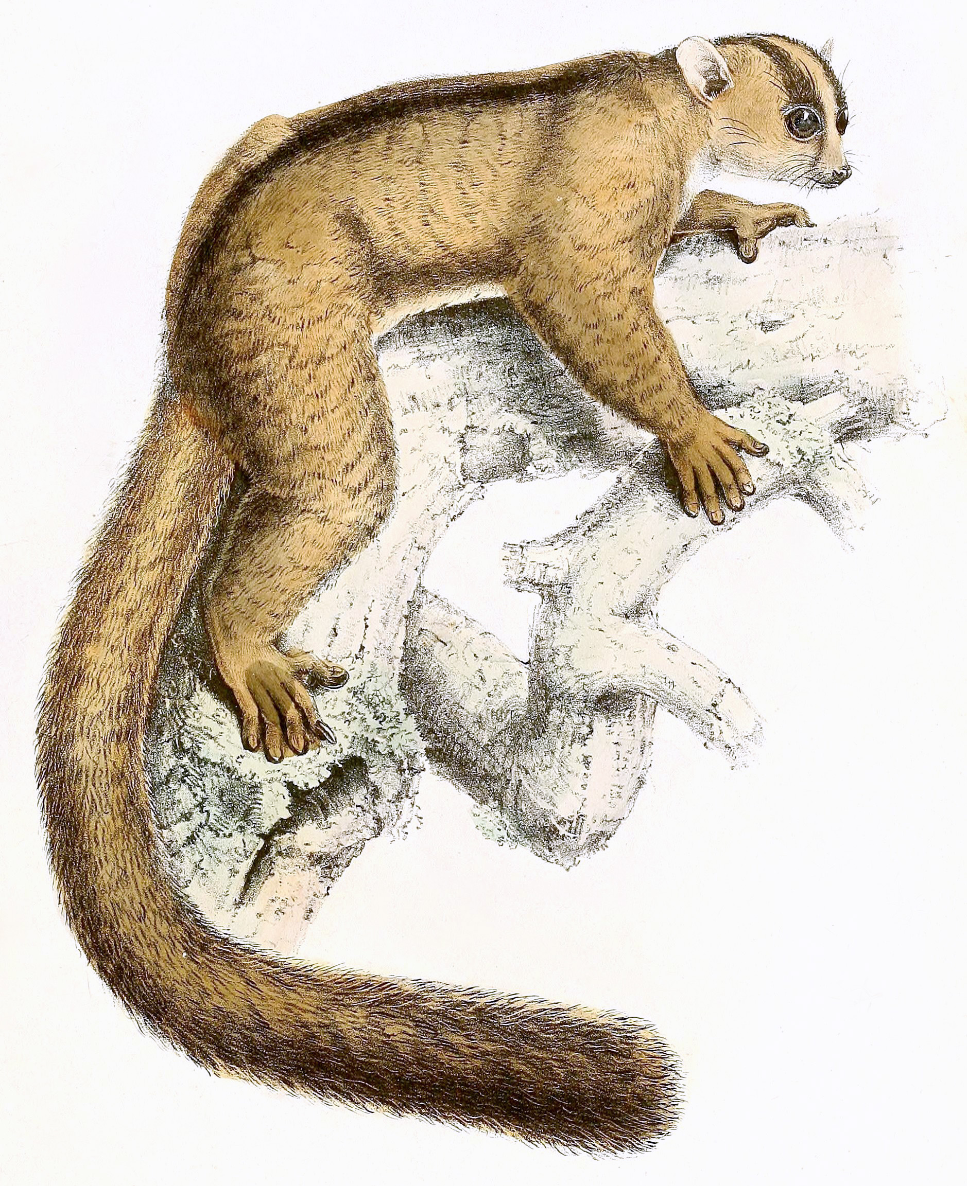 Cheirogaleus furcifer = Phaner furcifer (Masoala fork-marked lemur)